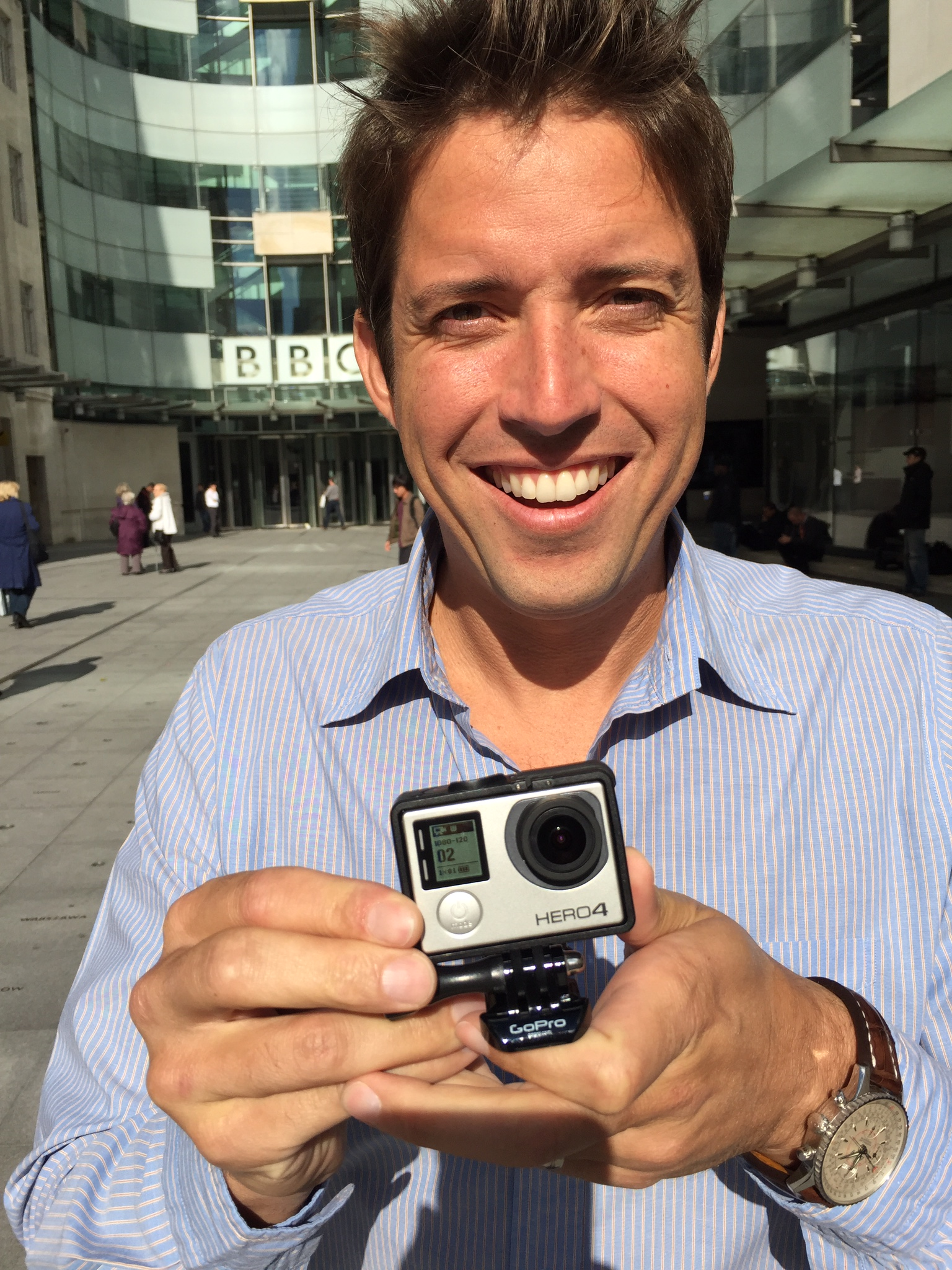 The founder and CEO of GoPro